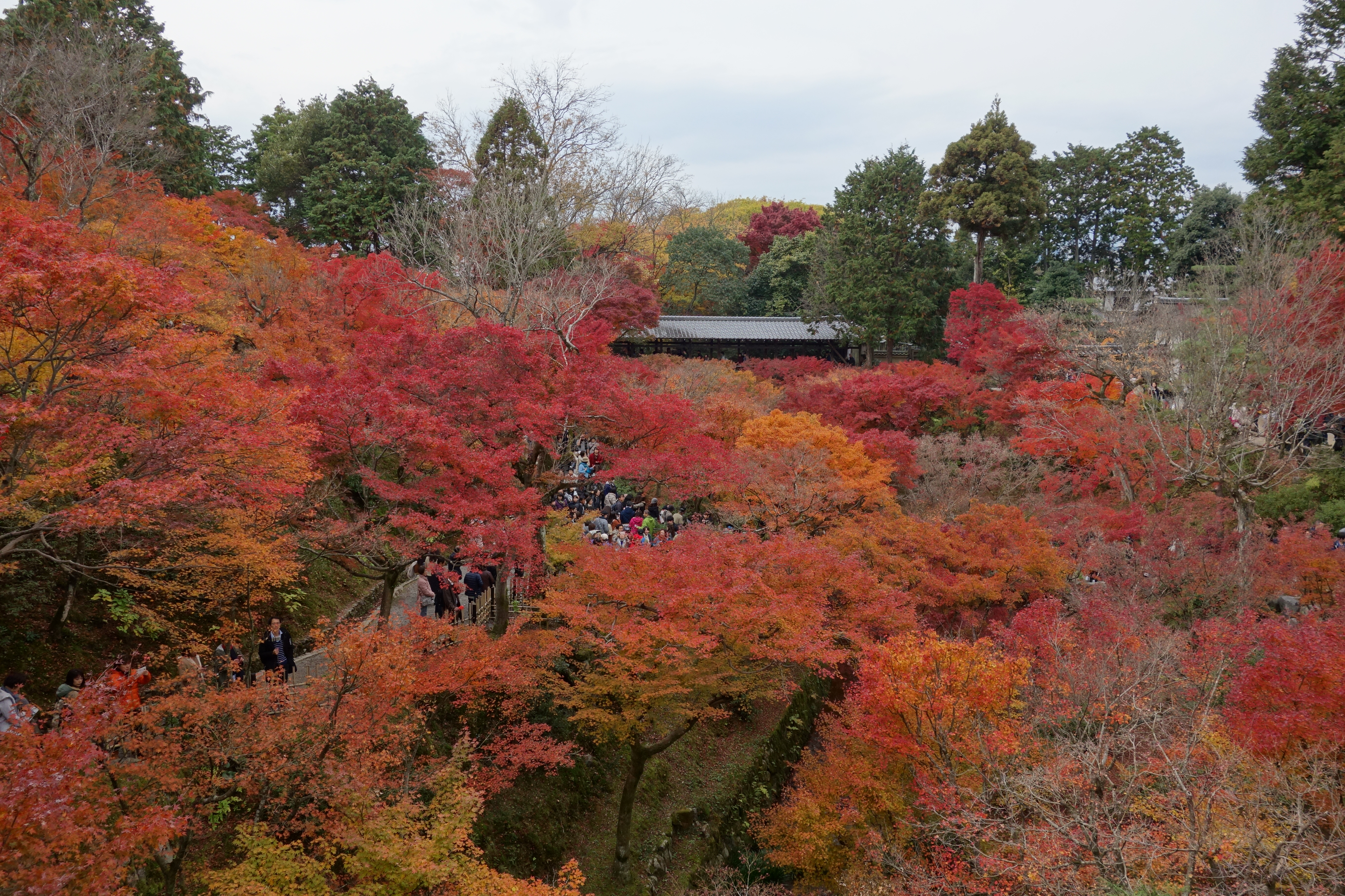 View of maple trees from Tsūten-kyō bridge in Tōfuku-ji during autumn. The trees in the valley below the bridge are in autumn foliage.